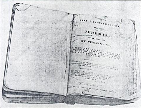 First print of a Malagasy Bible (1835)